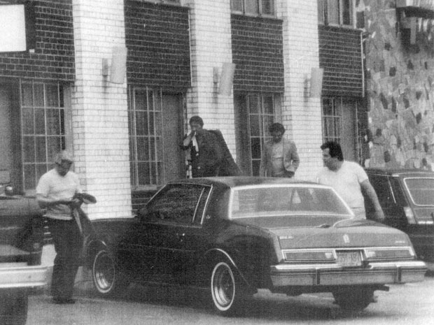 Murdered Canadian gangster Gerlando Sciascia, left, looks for the car keys while Joseph Massino, right, waits to get into a car in New York in 1981. In the middle, in the dark suit, is Montreal's Vito Rizzuto.